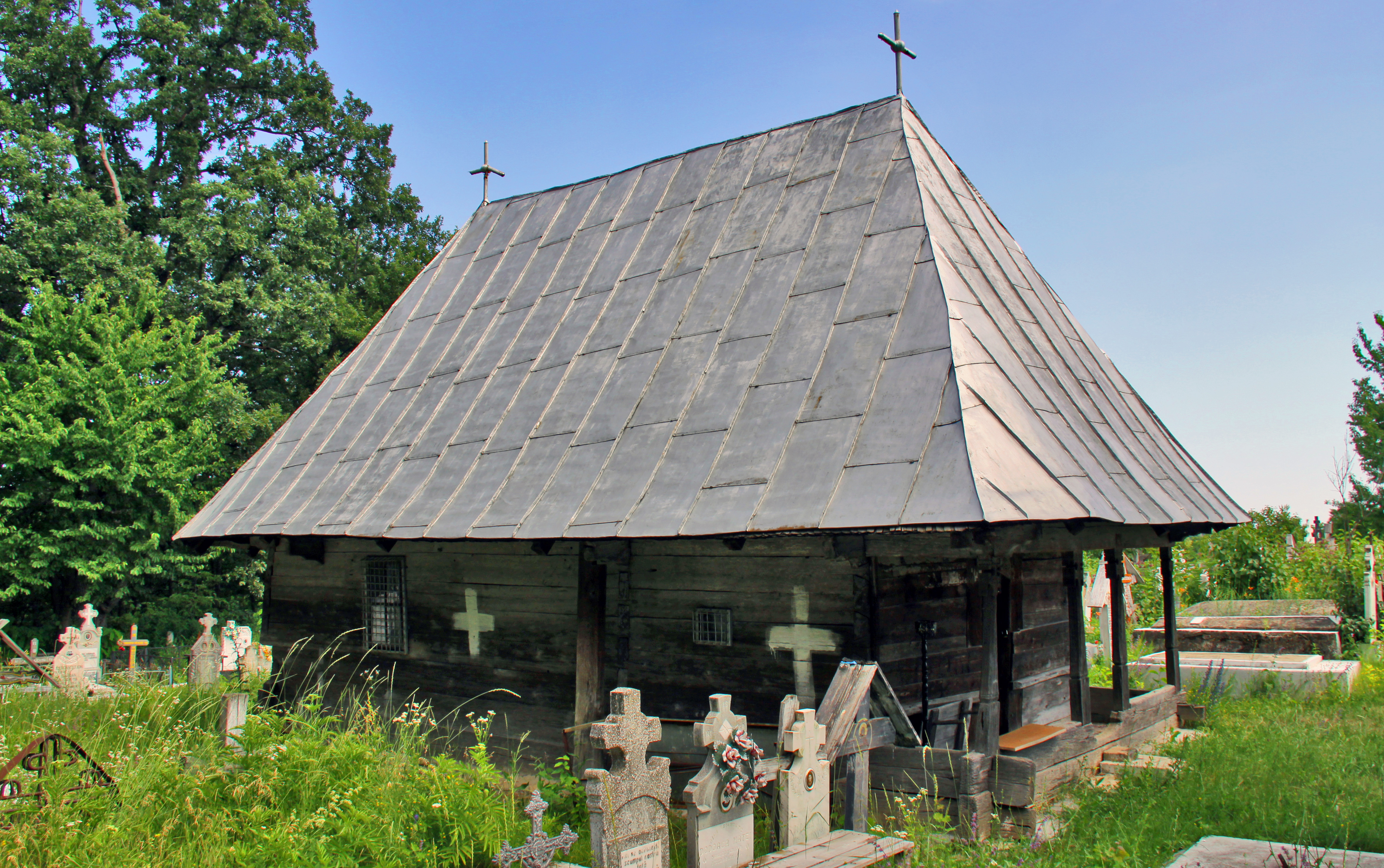 Curteana, Gorj County, Romania: the wooden church, North-West.